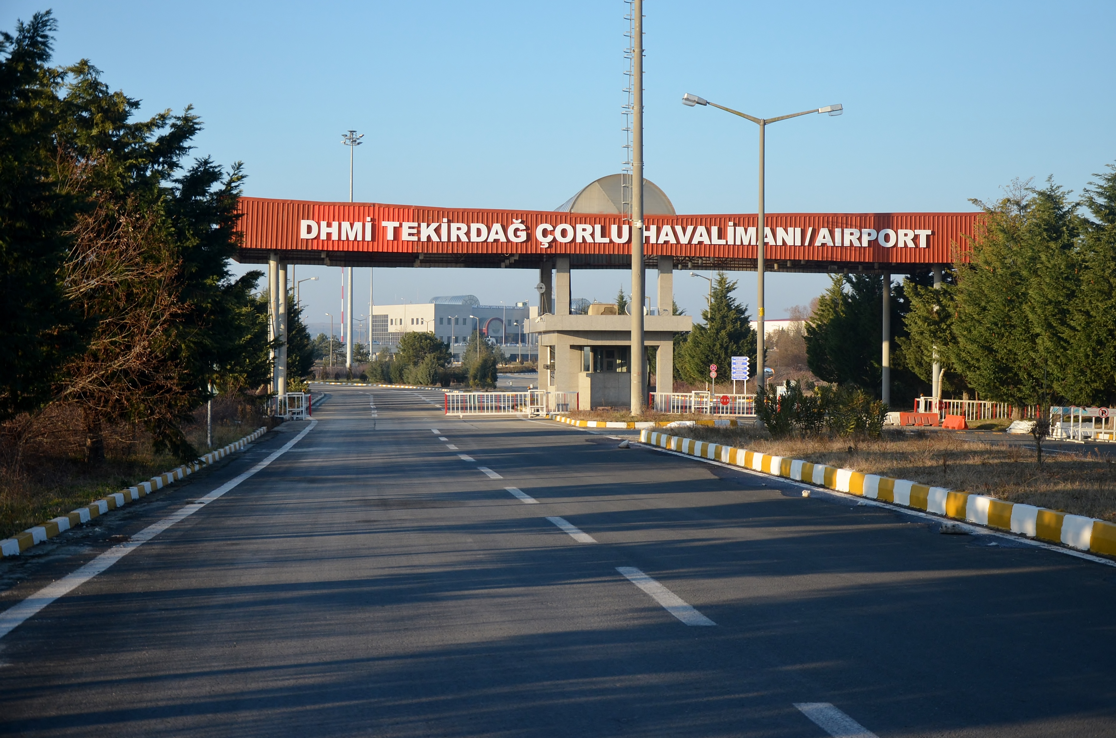 Tekirdağ Çorlu Airport in Turkey